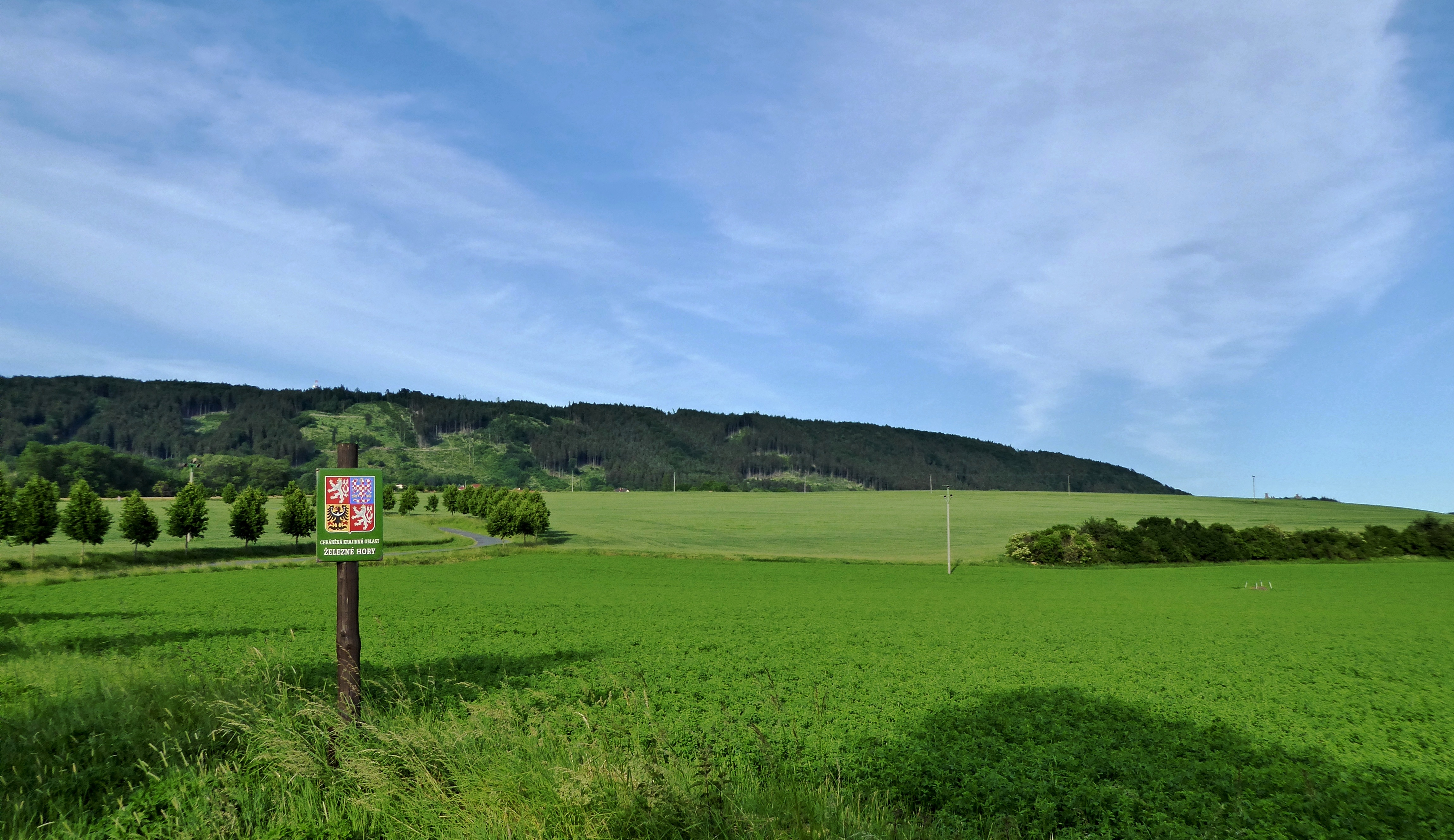 Protected landscape area Železné hory under the village Žlebské Chvalovice. The southwest ridge of the Iron Mountains forms the rocks of the geomorphological part "Chvaletická pahorkatina". The highest point Krkanka (567.8 m above sea level) lies in the forest massif (on the left). Photo location: Czechia, Pardubice Region, villages Ronov nad Doubravou.